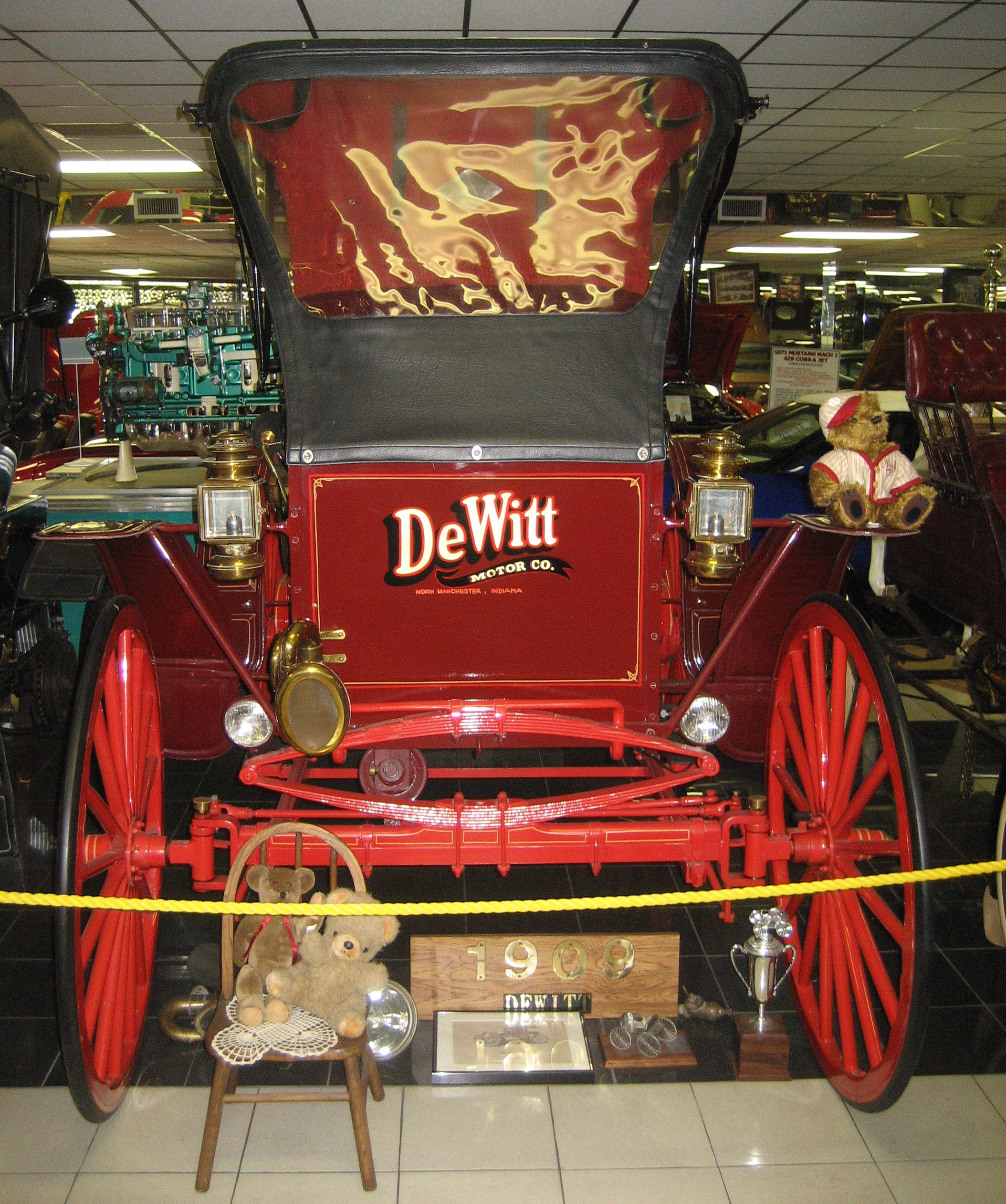 1909 DeWitt on display at Tallahassee Automobile Museum (with unfortunate smattering of irrelevant kitsch). Comment: I am unsure if this is an original or one of the replicas created in the 1980s.